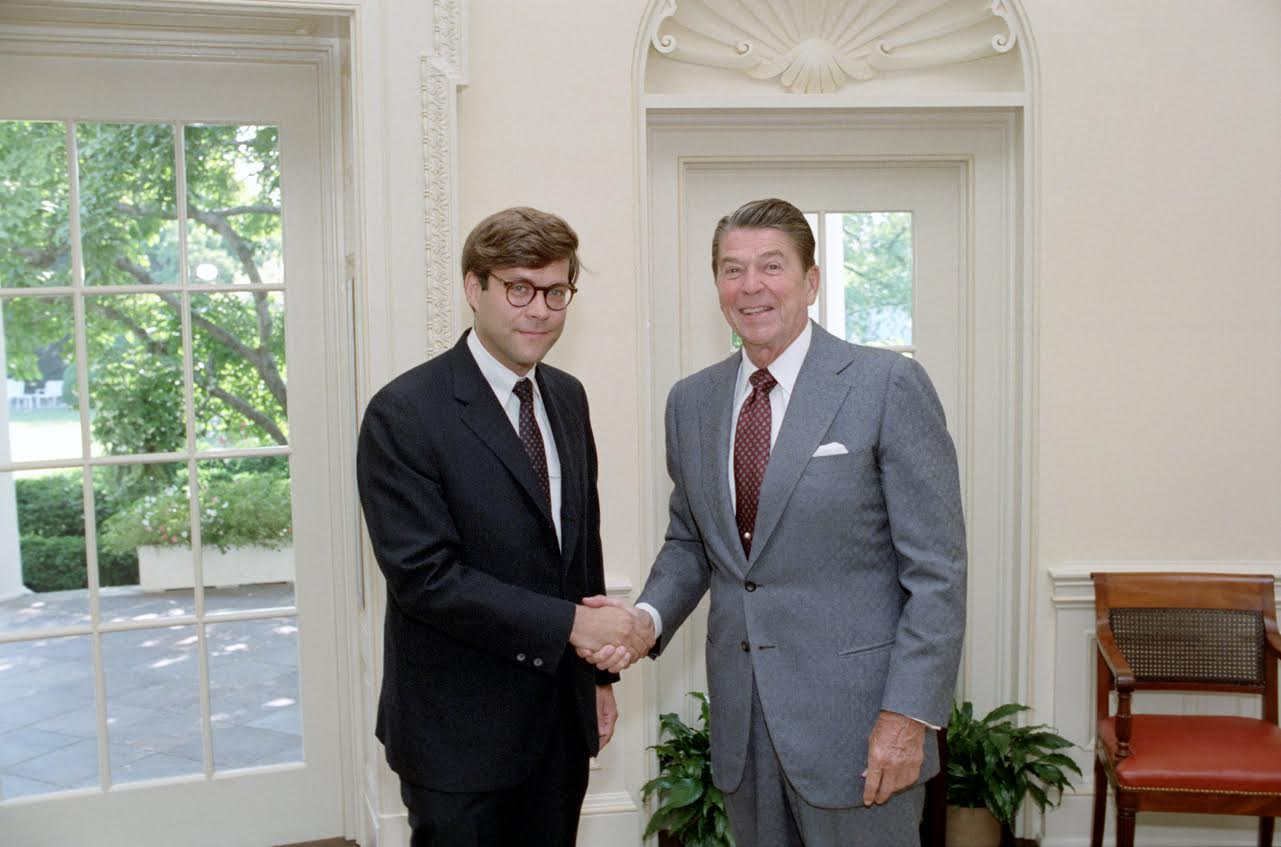 William Barr shakes hands with President Ronald Reagan during an NSC meeting in the Oval Office, 8/9/83.